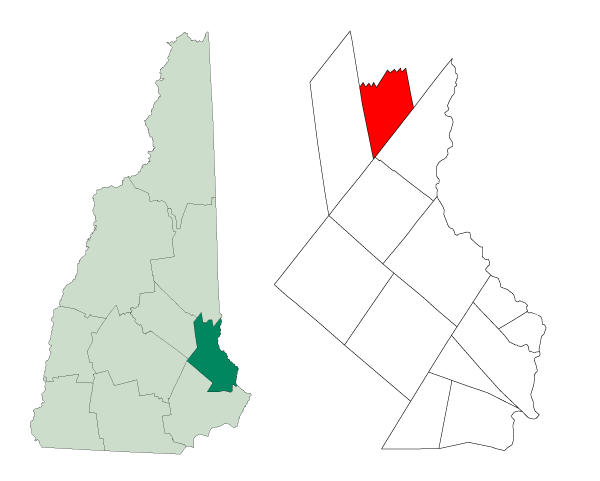 Created from Boundary/Border Outline Files of the Libre Map Project which held a BY-SA creative commons license. Data origionally from 2000 US Census boundary data.